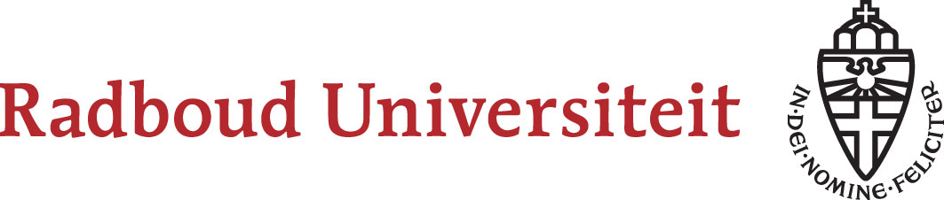 Logo of Radboud University Nijmegen